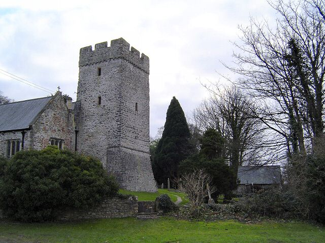 St Andrews Major church - Glamorgan. This church is the centrepoint of the small residential village of St Andrews Major.